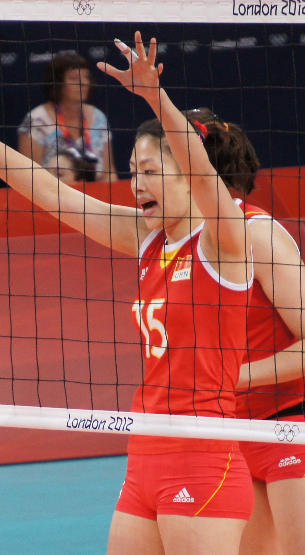 Chinese volleyball player Ma Yunwen.